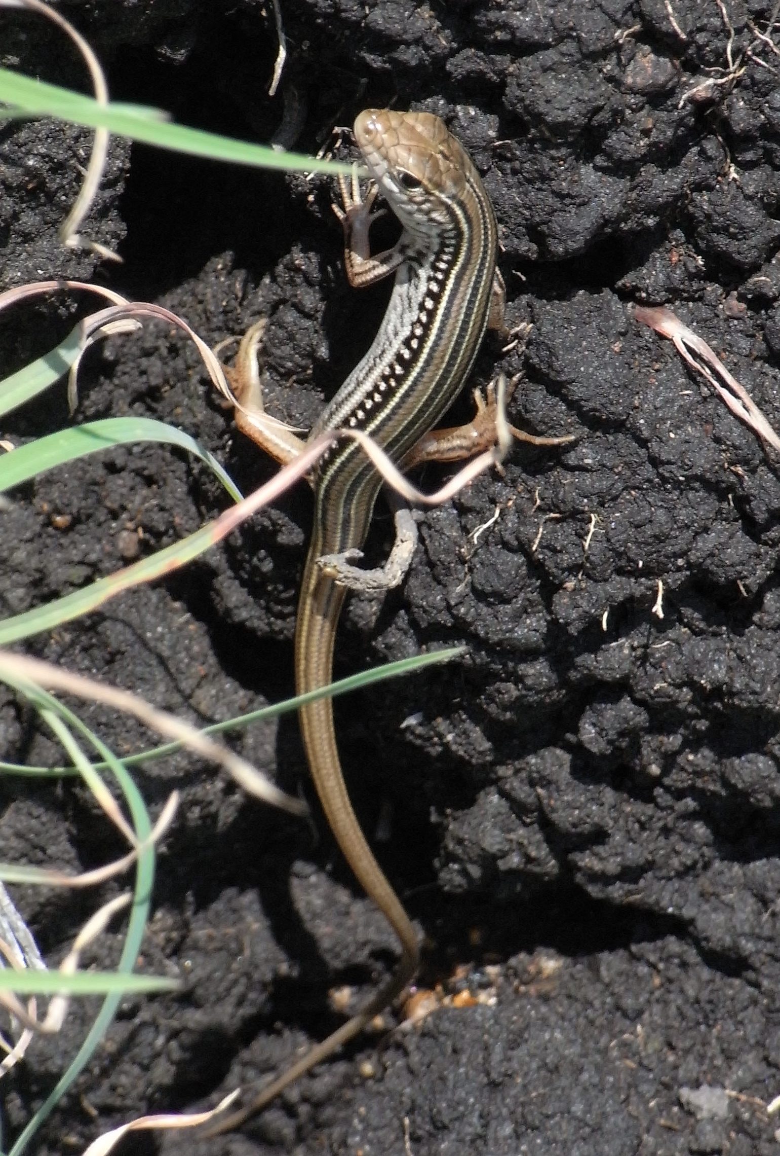 Robust striped skink (Ctenotus robustus) near The Gap, Hat Head National Park, Australia.